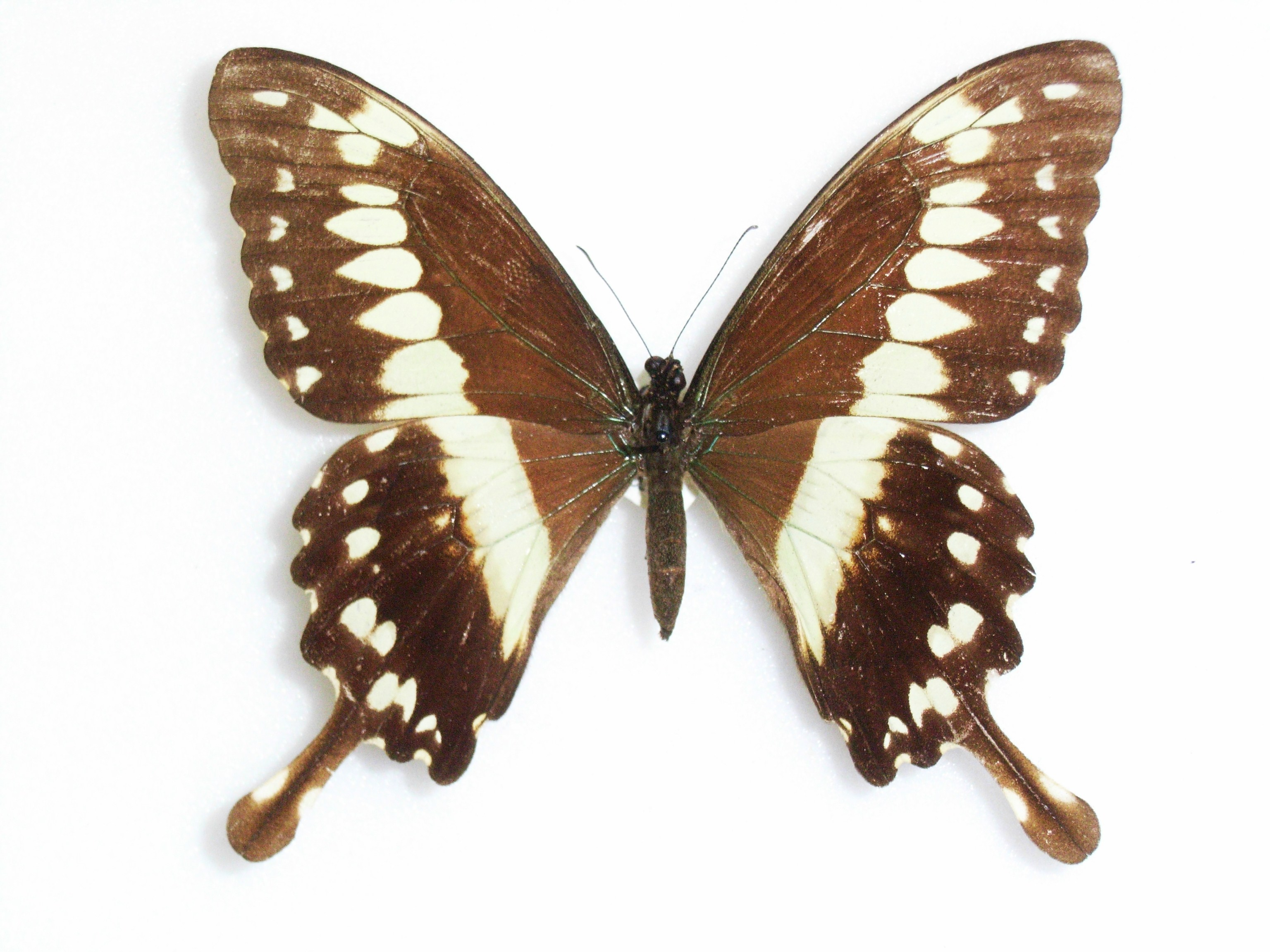 Papilio phorcas Cramer, [1775] form thersanderFemale I am not sure this id is correct. The males and females of this species appear, from other sources, to be identical. Charles (talk) 12:30, 21 November 2016 (UTC)